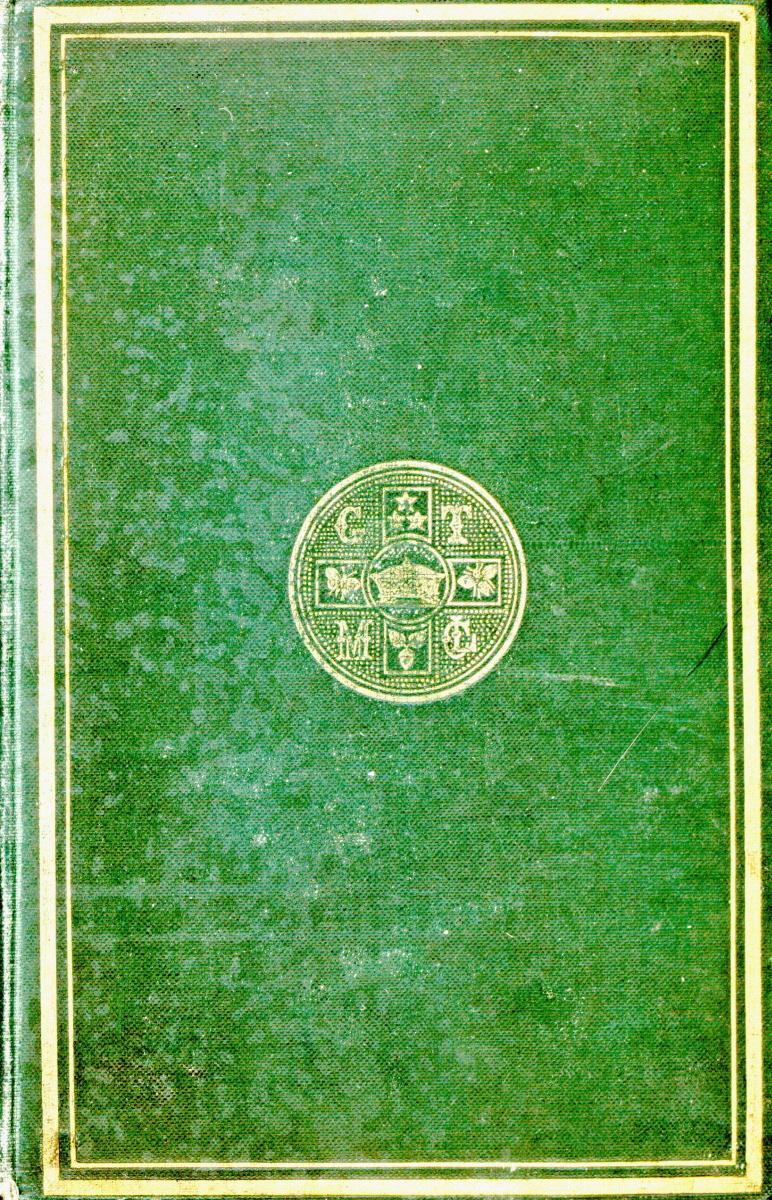 Cover of 1861 first edition (second issue) of Palgrave's Golden Treasury